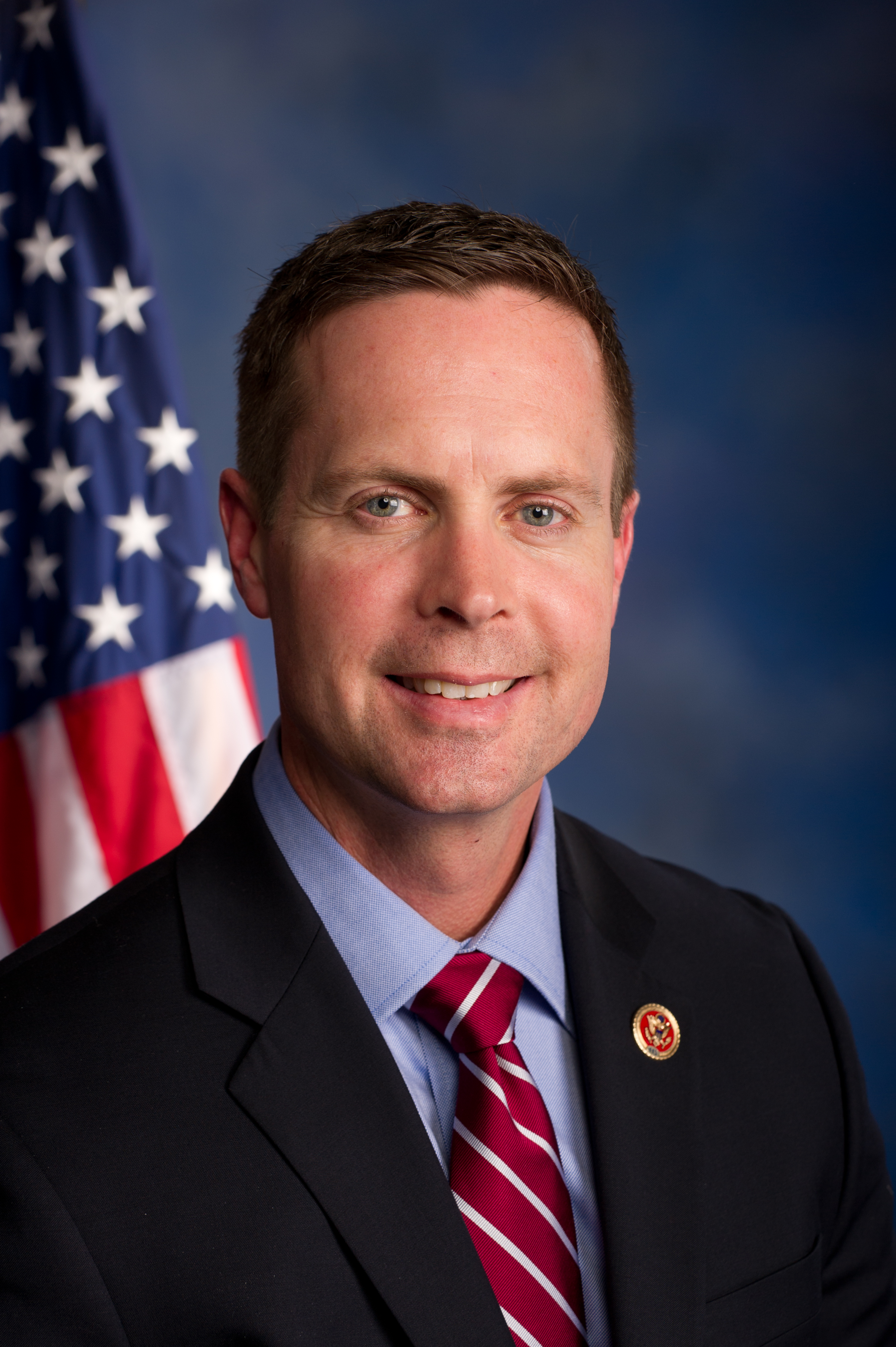 Congressman Rodney Davis